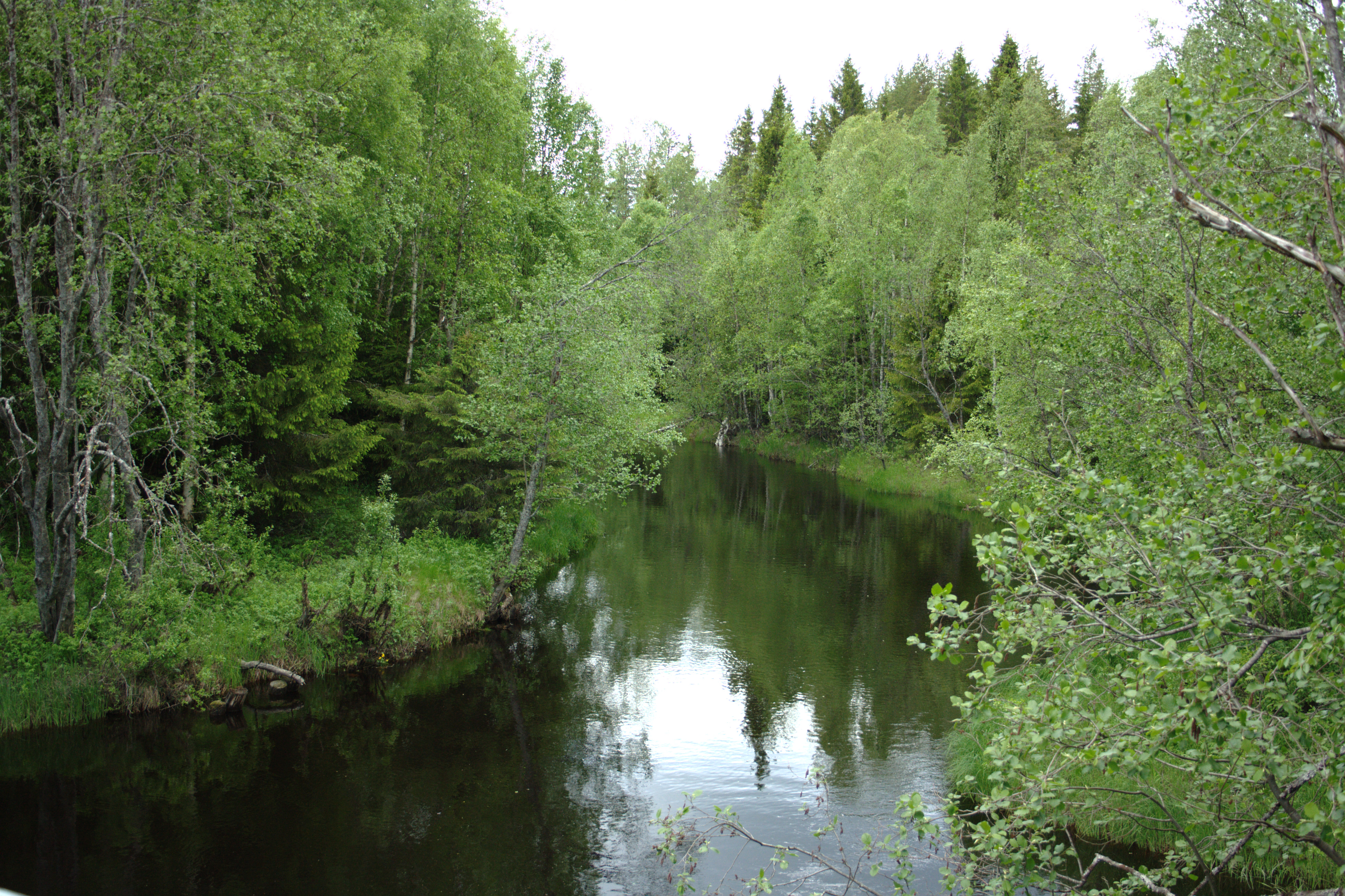 The Ramsan tributary that flows into the Ume River.